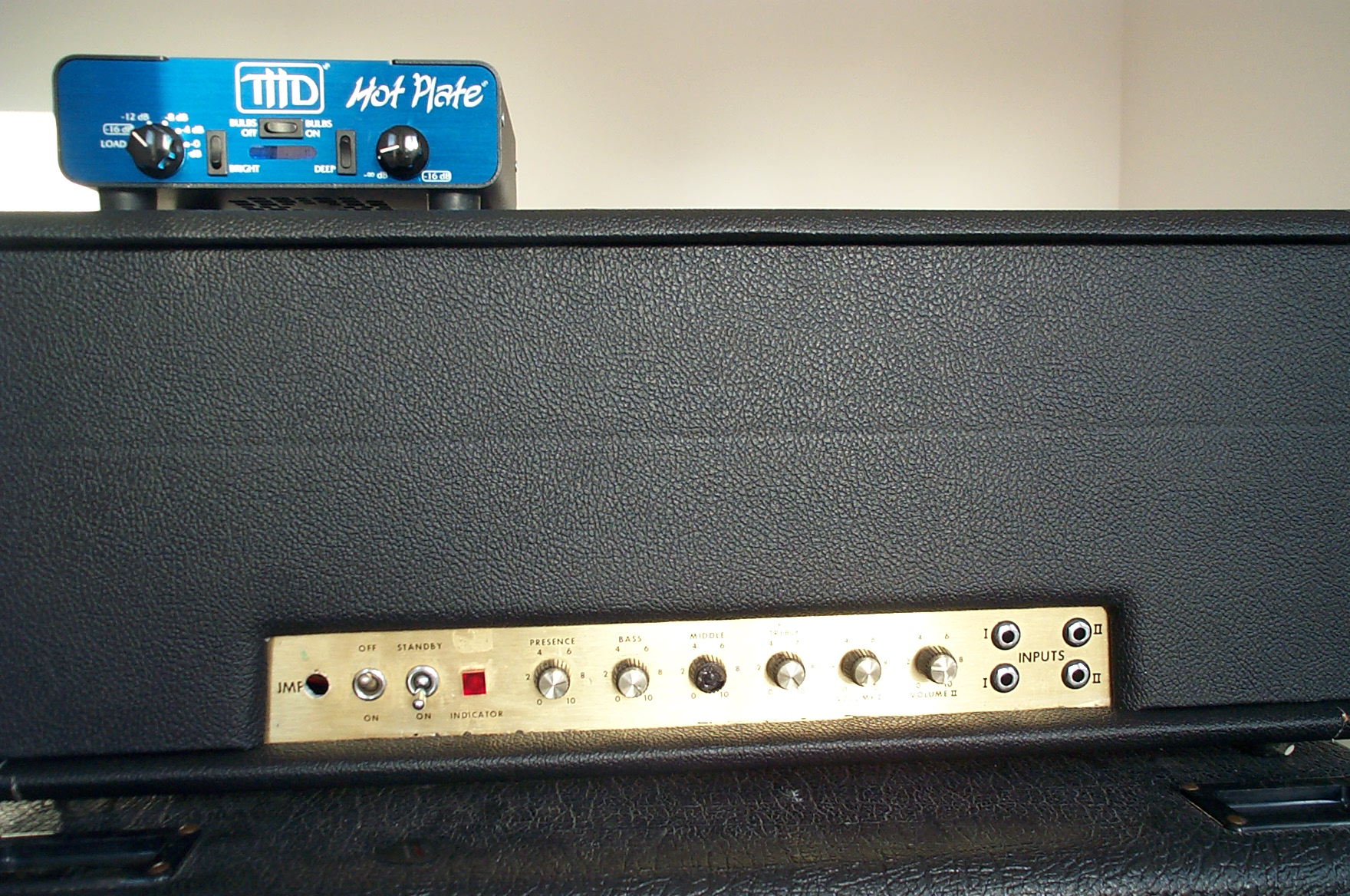 My ’69 Marshall Super Lead with the new Tolex mostly done.